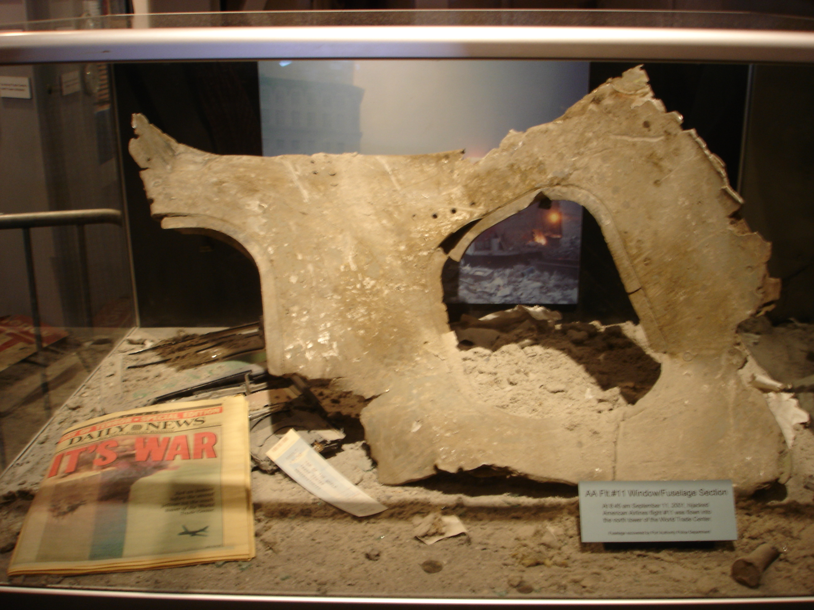 Wreckage from American Airlines Flight 11, exhibited aboard the aircraft carrier Intrepid Sea-Air-Space Museum in Manhattan